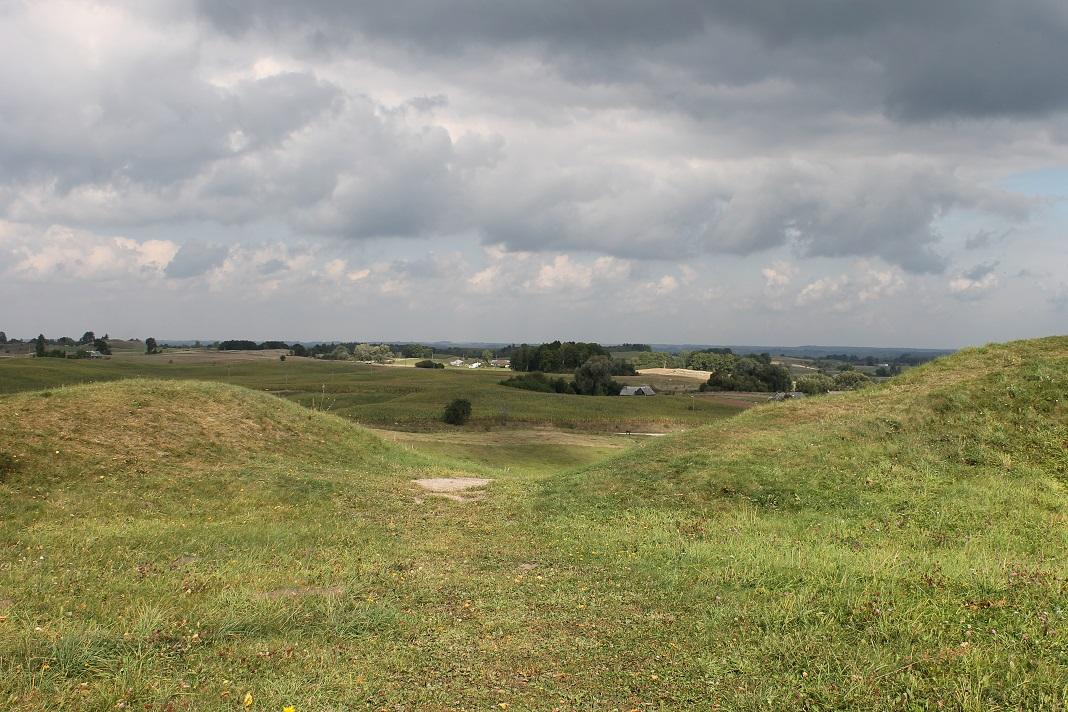 Rudamina Hillfort, Lazdijai district municipality, LithuaniaLietuvių: Rudaminos piliakalnis, Lazdijų rajono savivaldybė, Lietuva